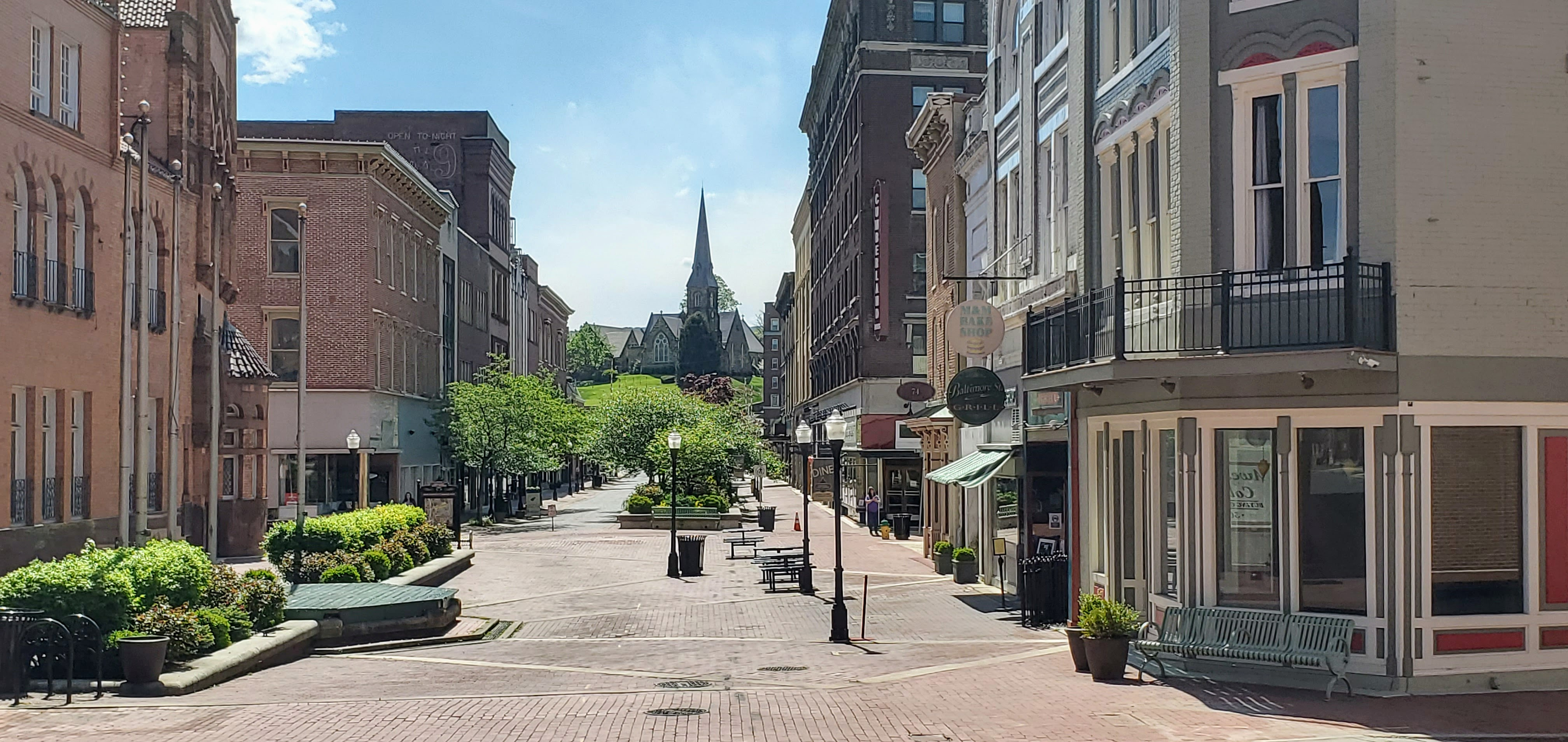 City of Cumberland, MD downtown 05/10/20